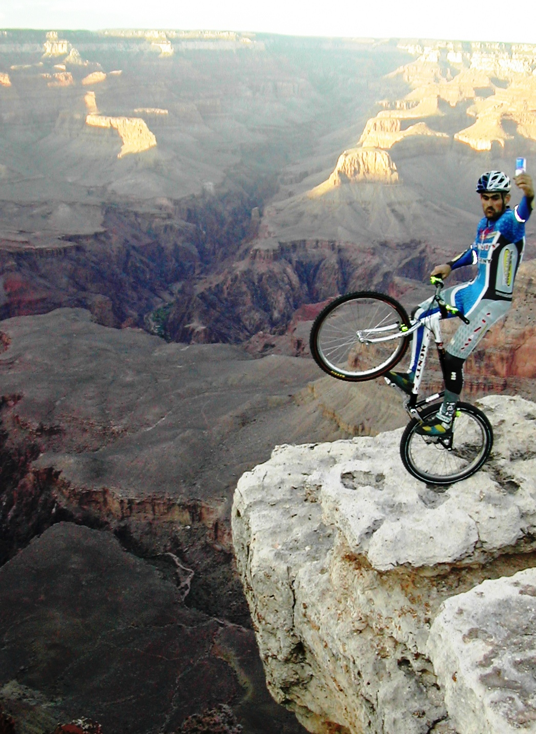 Gran Canyon USA